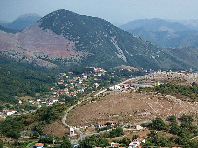 View of the village Massa of Maratea.